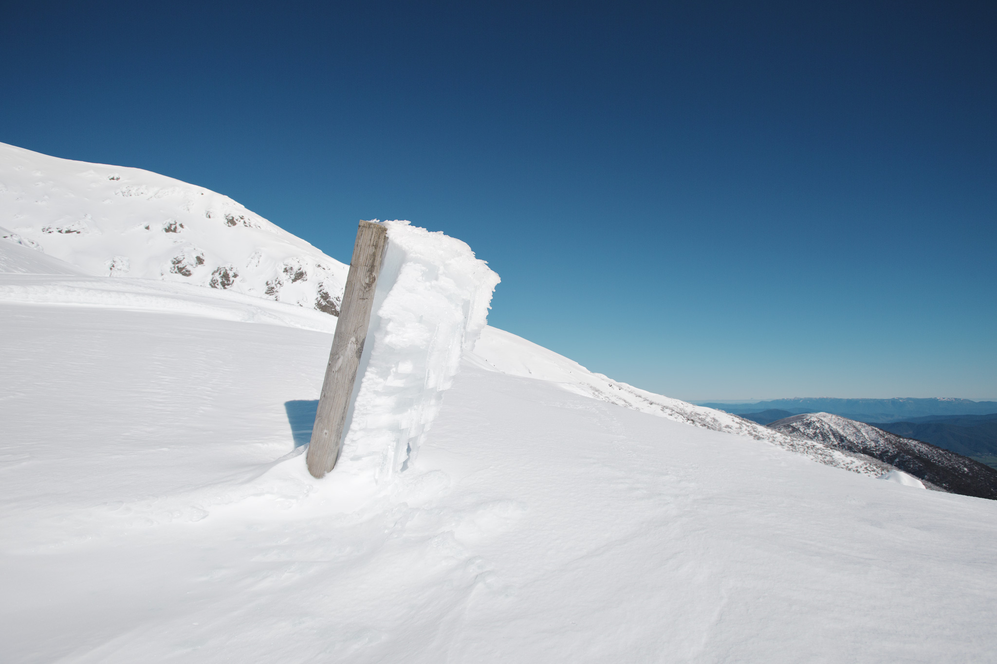 Mount Bogong after the July 2014 Blizzards. Taken during the extreme weather conditions that killed two snowboarders on the northern slopes of the mountain just one day earlier.